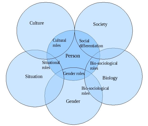 Social roles Venn diagram, expressed in set theory: Person U Culture = Cultural norms; Society = Social differentiation; Situtation = Situational roles; Gender = Gender roles; Biology = Bio-sociological rules Biology U Gender = Bio-sociological rules